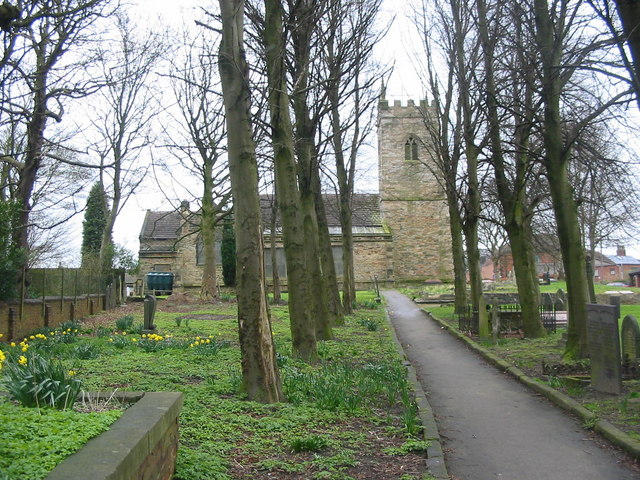 Parish church of St Michael and All Angels, South Normanton, Derbyshire, seen from the north